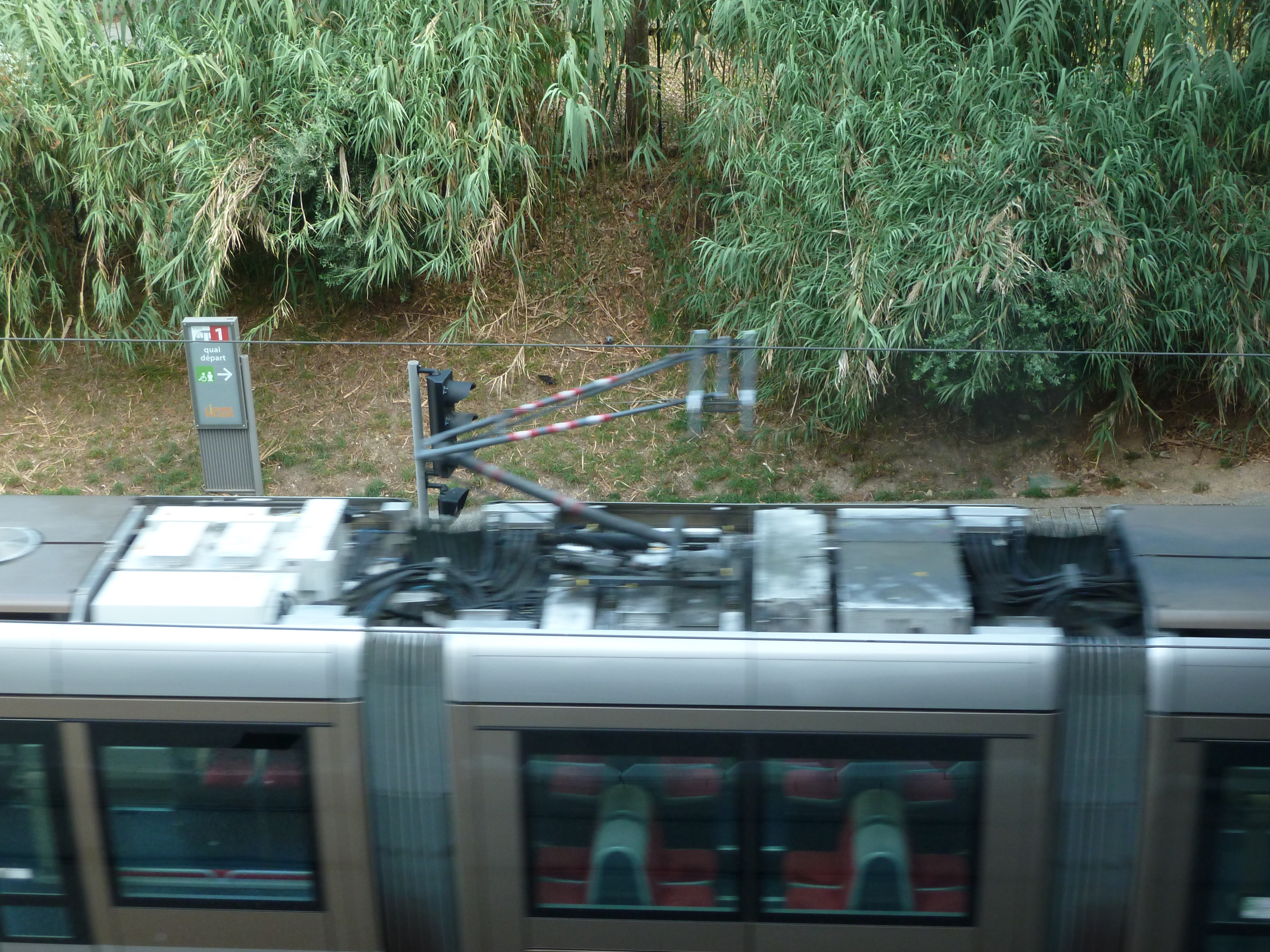 Board batteries of Nice tram